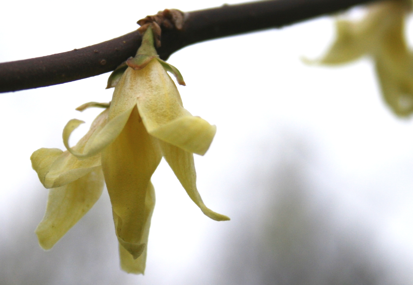 Forsythia giraldiana: Habitus (Århus Botanical Garden)